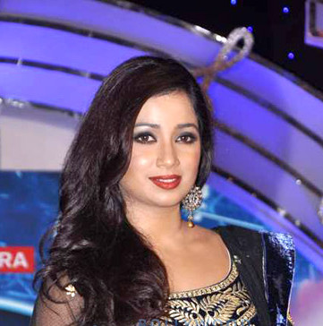 Playback singer Shreya Ghoshal at the press conference of Indian Idol Junior